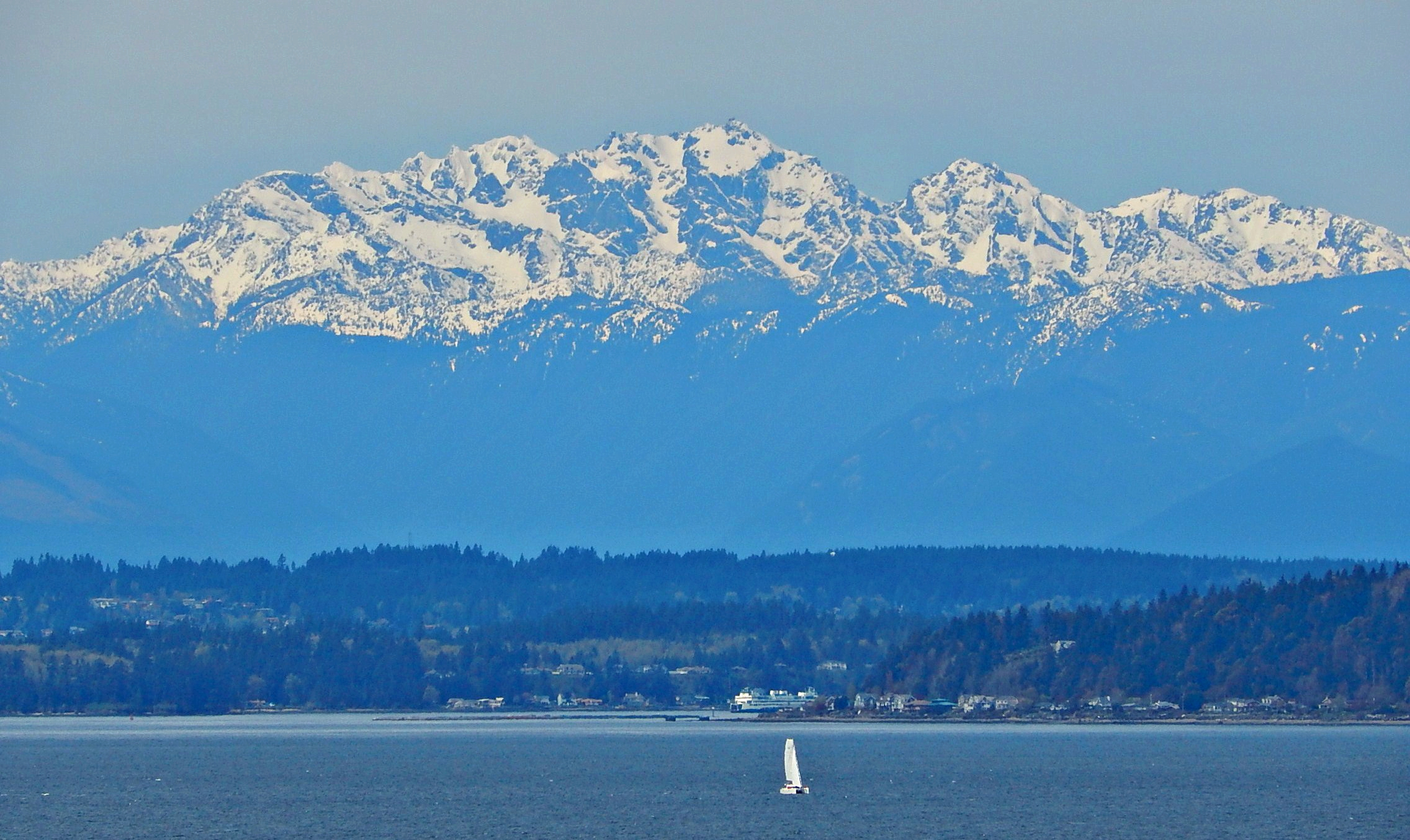 Mount Constance seen from Lincoln Park in West Seattle, Washington. Olympic Mountains.